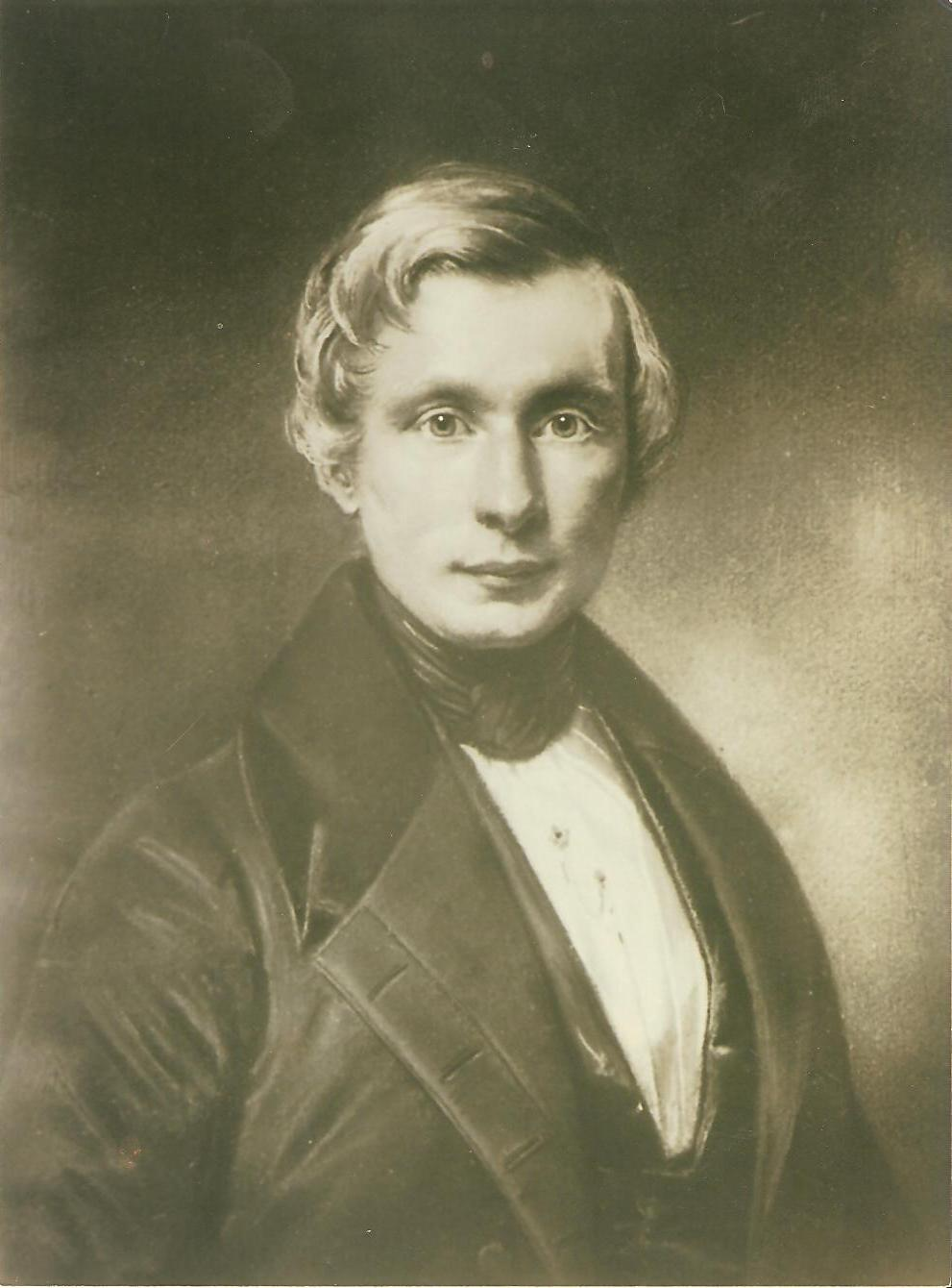 Rudolf Eduard Julius Gierke 1807-1855